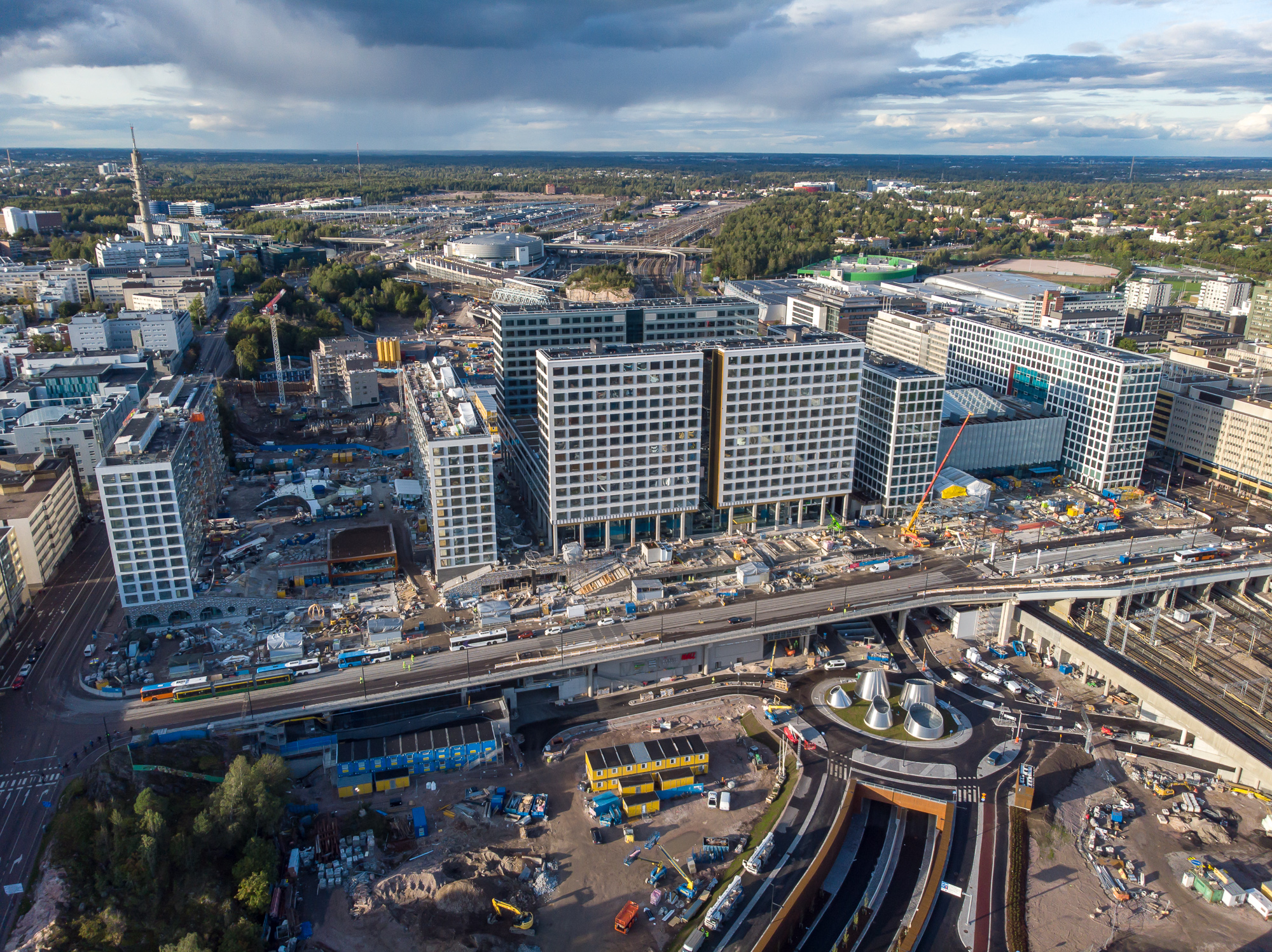 Aerial image of the nearly finished construction of Tripla in Pasila, Helsinki, Finland